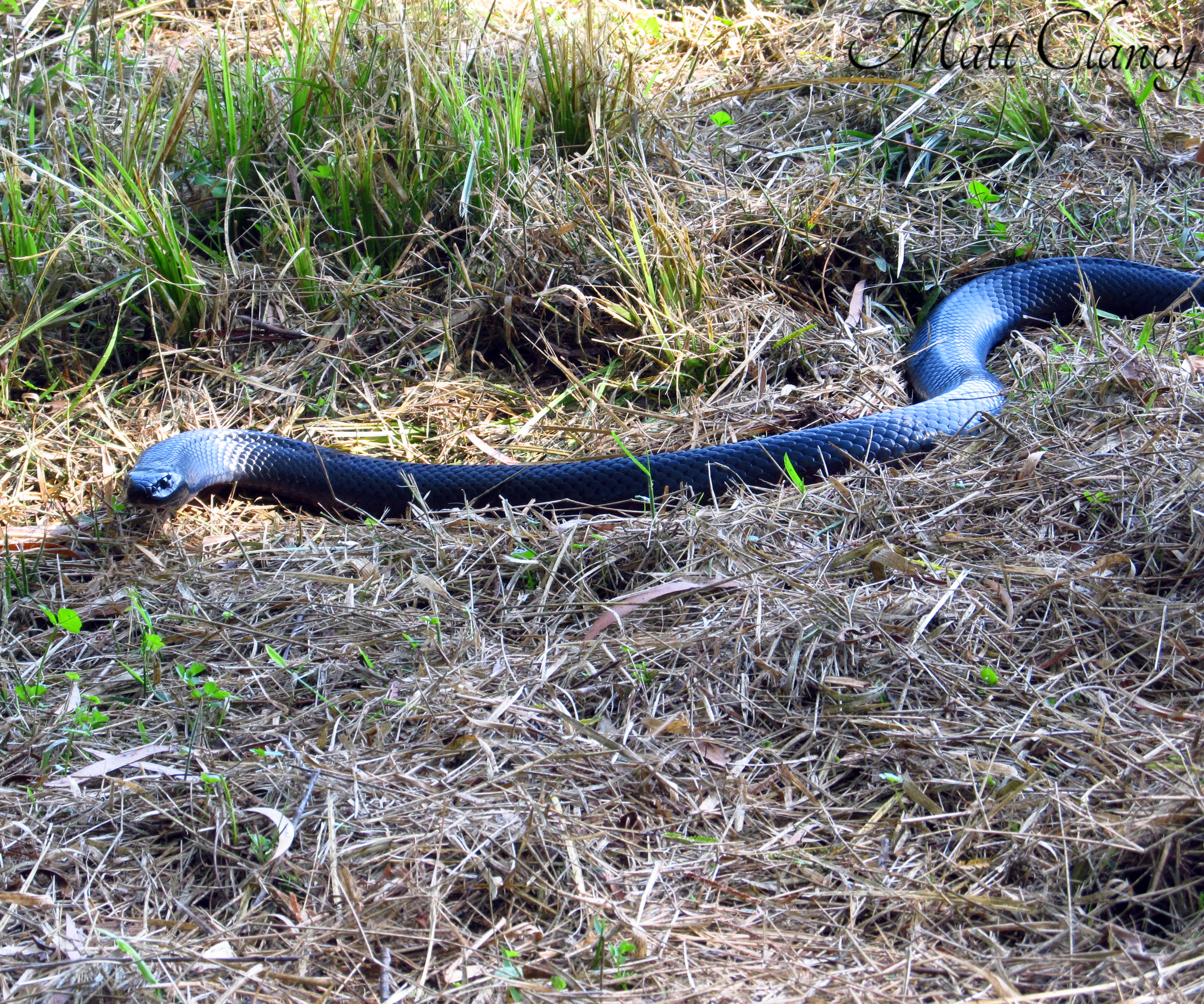 East Gippsland, Vic.